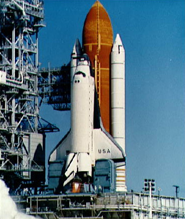 STS-55 Columbia, Orbiter Vehicle (OV) 102, launch attempt from Kennedy Space Center (KSC) Launch Complex (LC) Pad 39A comes to an abrupt halt when space shuttle main engine (SSME) number 3 fails to fully ignite. The SSME failure initiated a main engine abort sequence by the orbiter onboard computers. Ignition of the SSMEs began at T-6.6 seconds and shutdown was completed at about T-3 seconds, resulting in an on-the-pad abort of STS-55. This was the first time in the post-Challenger era that an SSME shutdown has halted a Shuttle launch countdown, and only the third time in the history of the program. OV-102, atop the external tank (ET) and flanked by two solid rocket boosters (SRBs), had been scheduled to lift off from LC Pad 39A at 9:51 am (Eastern Standard Time (EST)). The fixed service structure (FSS) tower appears to the left of OV-102. View provided by KSC with alternate KSC number KSC-93PC-475.